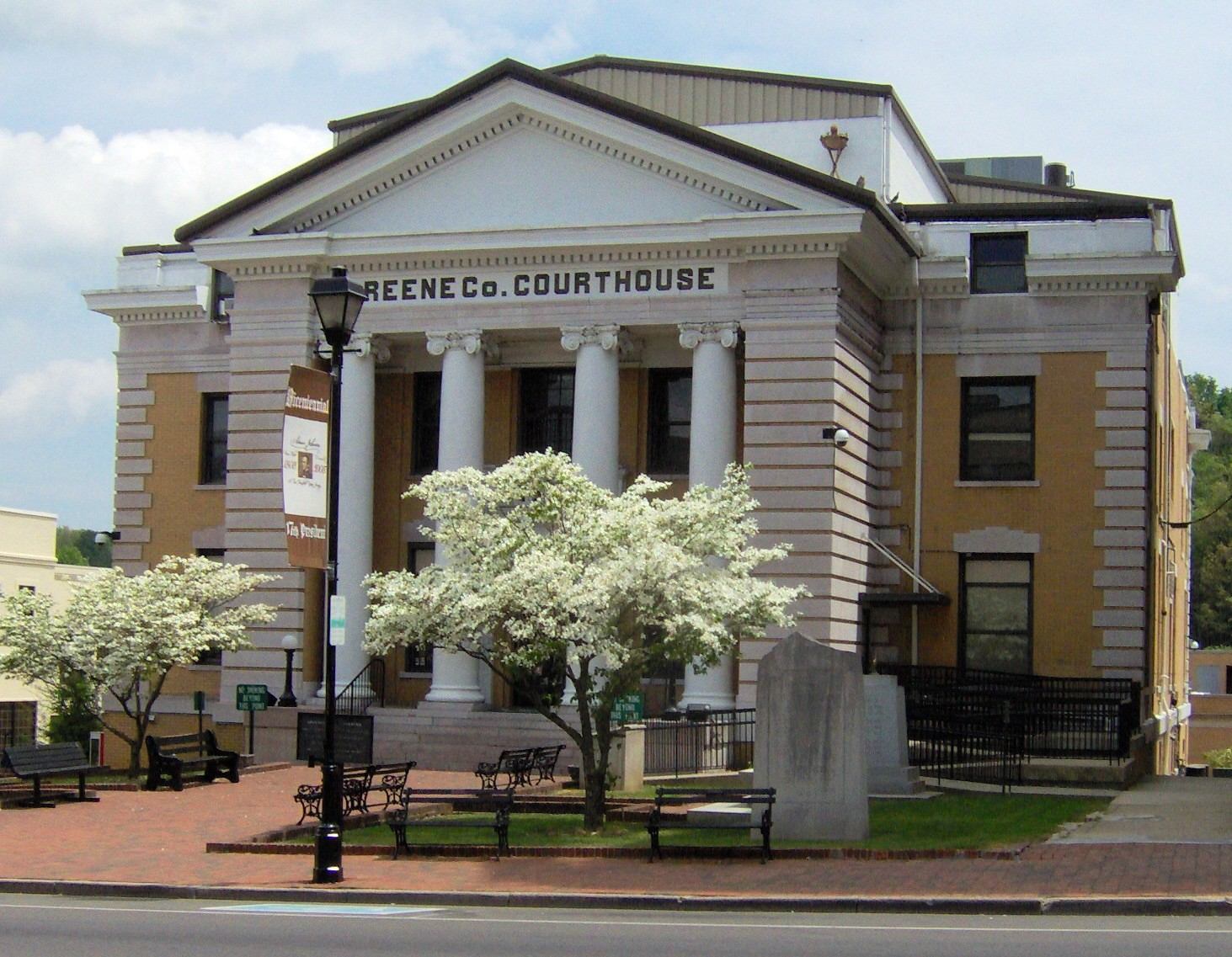 Greene County Courthouse in Greeneville, Tennessee, in the southeastern United States.